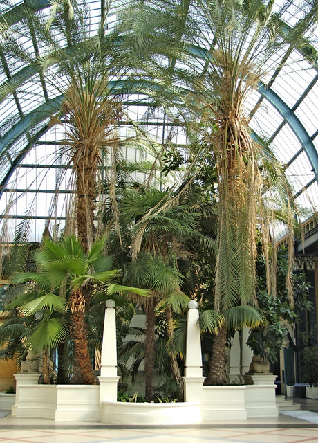 The Palm Court, Alexandra Palace, London The Palm Court at the west end of Alexandra Palace is a vast glass-roofed atrium filled with large palms and Egyptian sculptures.